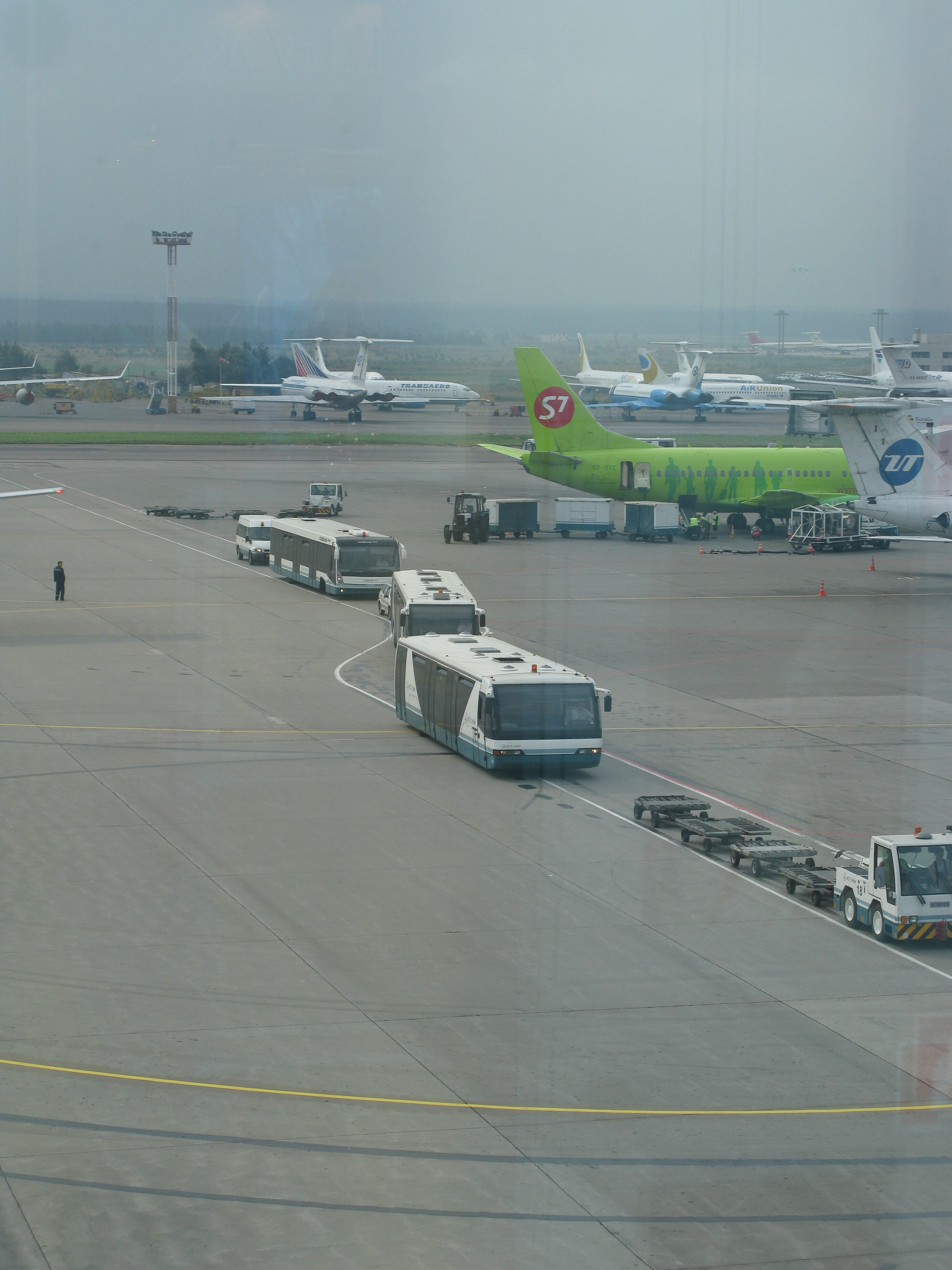 Airfield shuttle buses in Domodedovo International Airport, Moscow, Russia. Two Neoplan airport buses and Contrac Cobus 3000 bus.